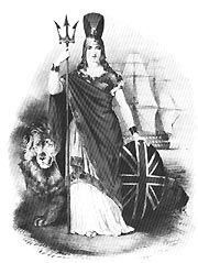 Britannia - Goddess / British symbol. 19th Century engraving